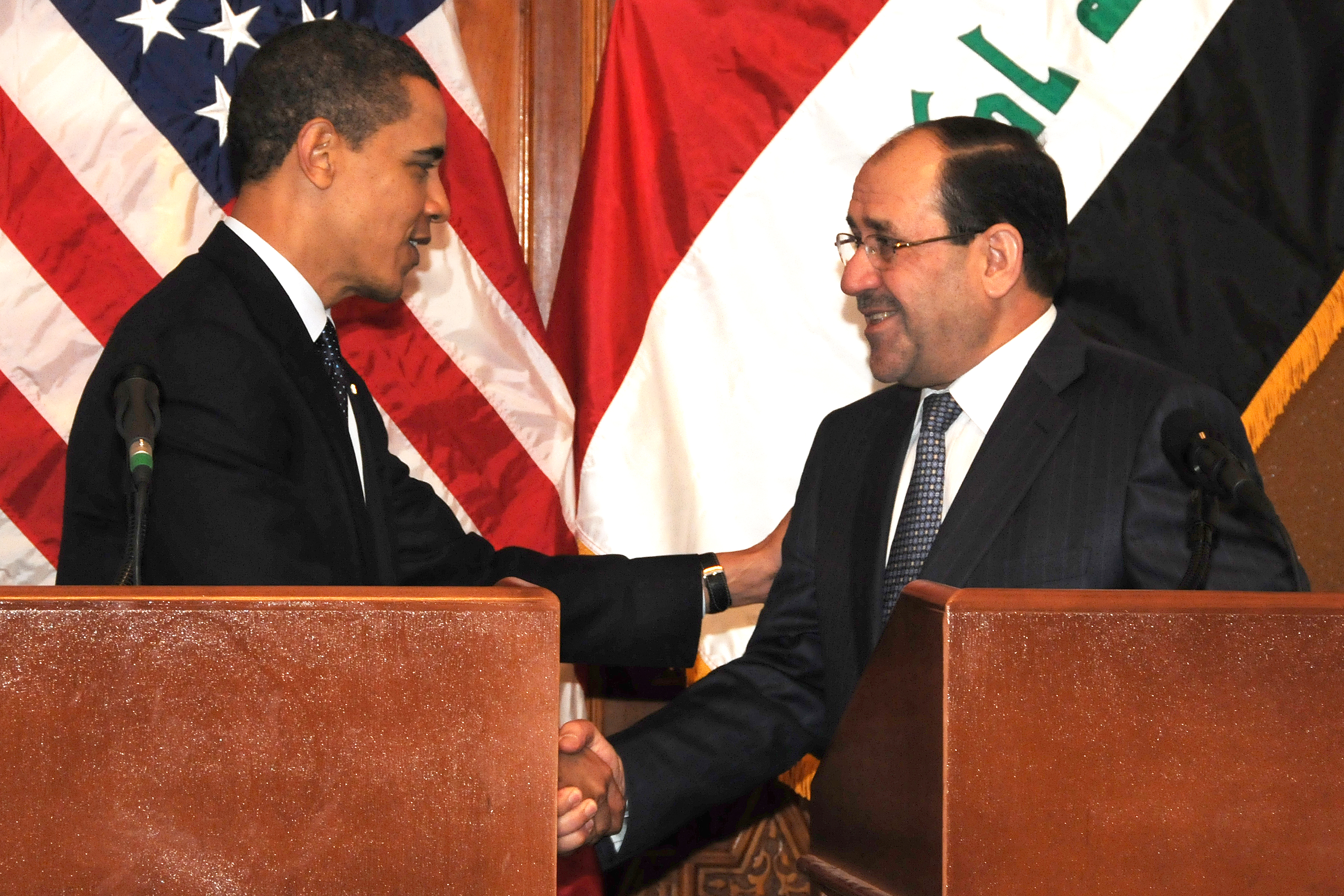 President Barack Obama shakes hands with Iraqi Prime Minister Nouri al-Maliki after a joint press event on Camp Victory, Iraq, April 7, 2009. Obama spoke to hundreds of U.S. troops during his surprise visit to Iraq to thank them for their service.